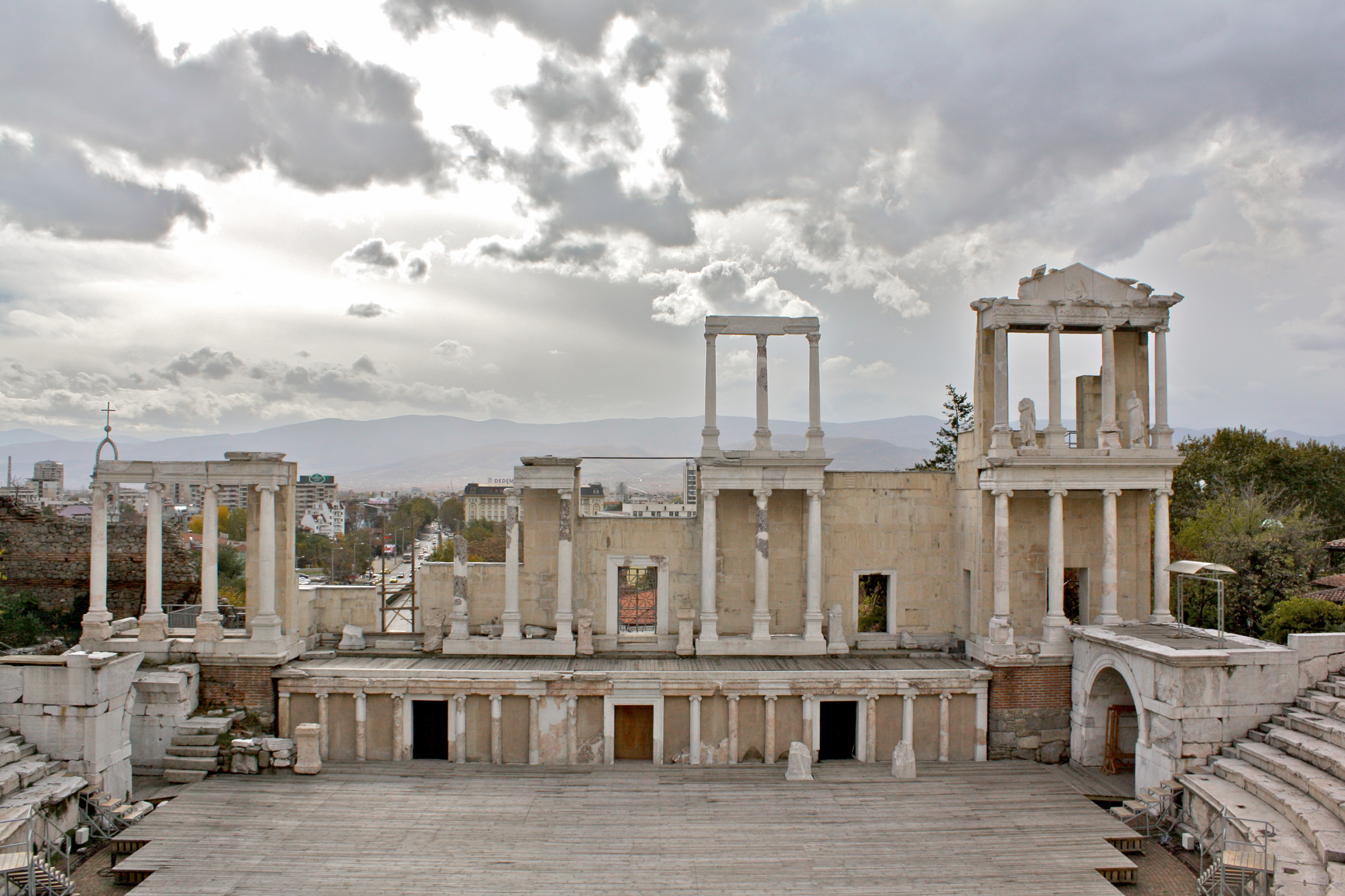 The skênê of the ancient theatre of Plilippopolis